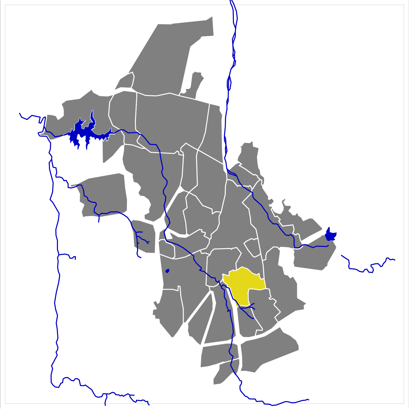 map of Windhoek suburb Suiderhof.